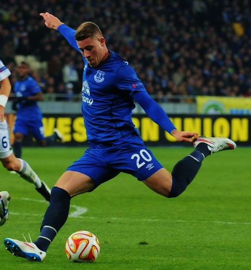 Ross Barkley